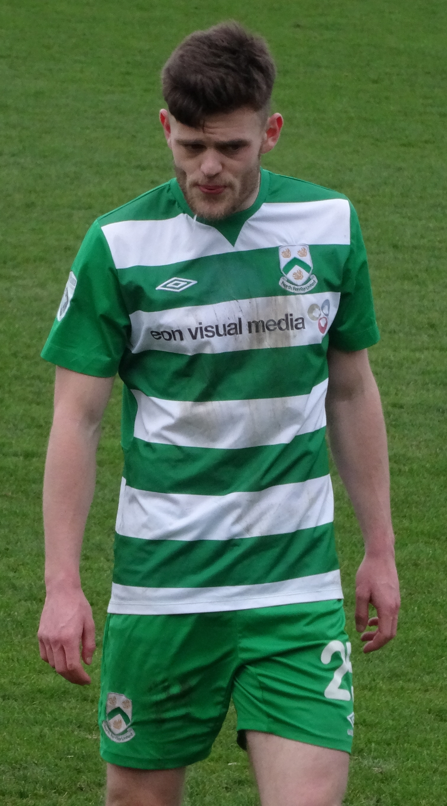 Reece Thompson playing for North Ferriby United against Solihull Moors at Grange Lane, North Ferriby on 18 March 2017